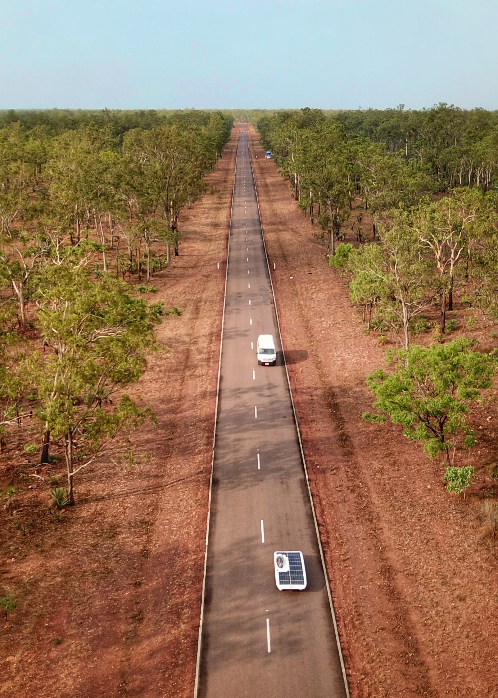 Test drive of the Huawei Sonnenwagen solar car on Cox Peninsula near Darwin, NT